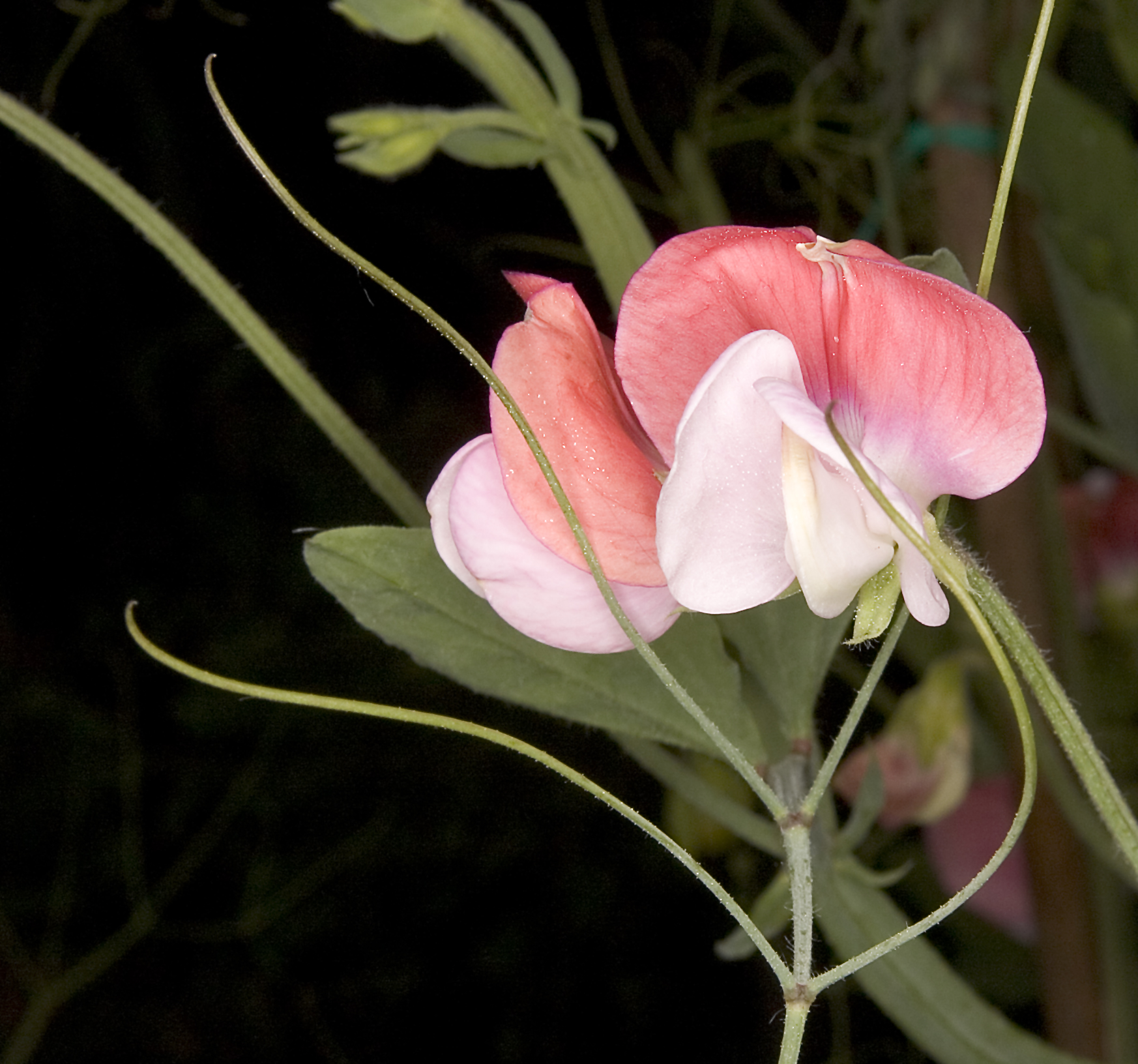 Lathyrus odoratus 'Painted Lady', Fabaceae, Faboideae - Original description: Everlasting Sweet Pea, 'Lathyrus latifolius Painted Lady', taken with a Nikon D2H